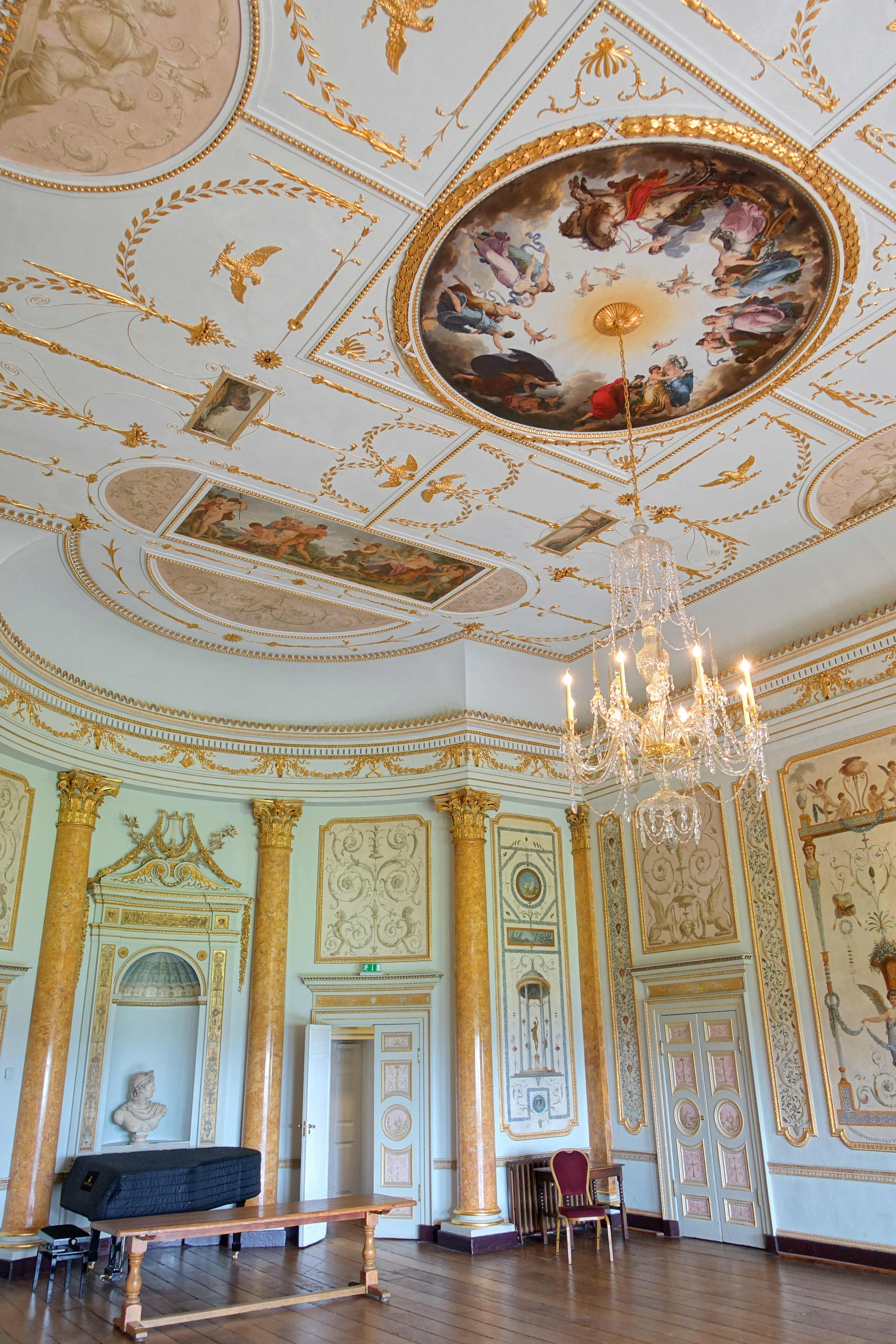 Music Room - Stowe House - Buckinghamshire, England.